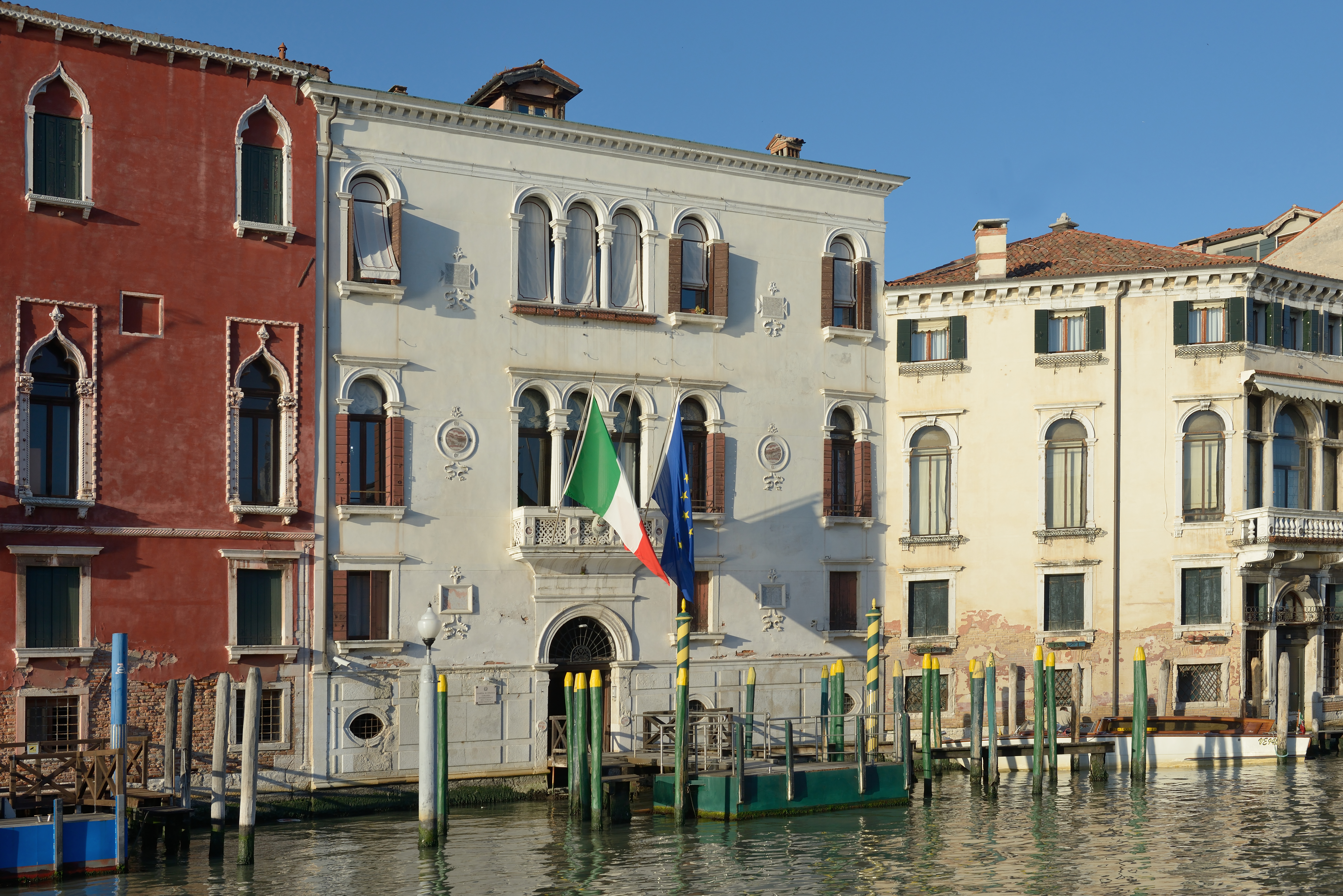 The Palazzo Soranzo Piovene on the Canal Grande in Venice.